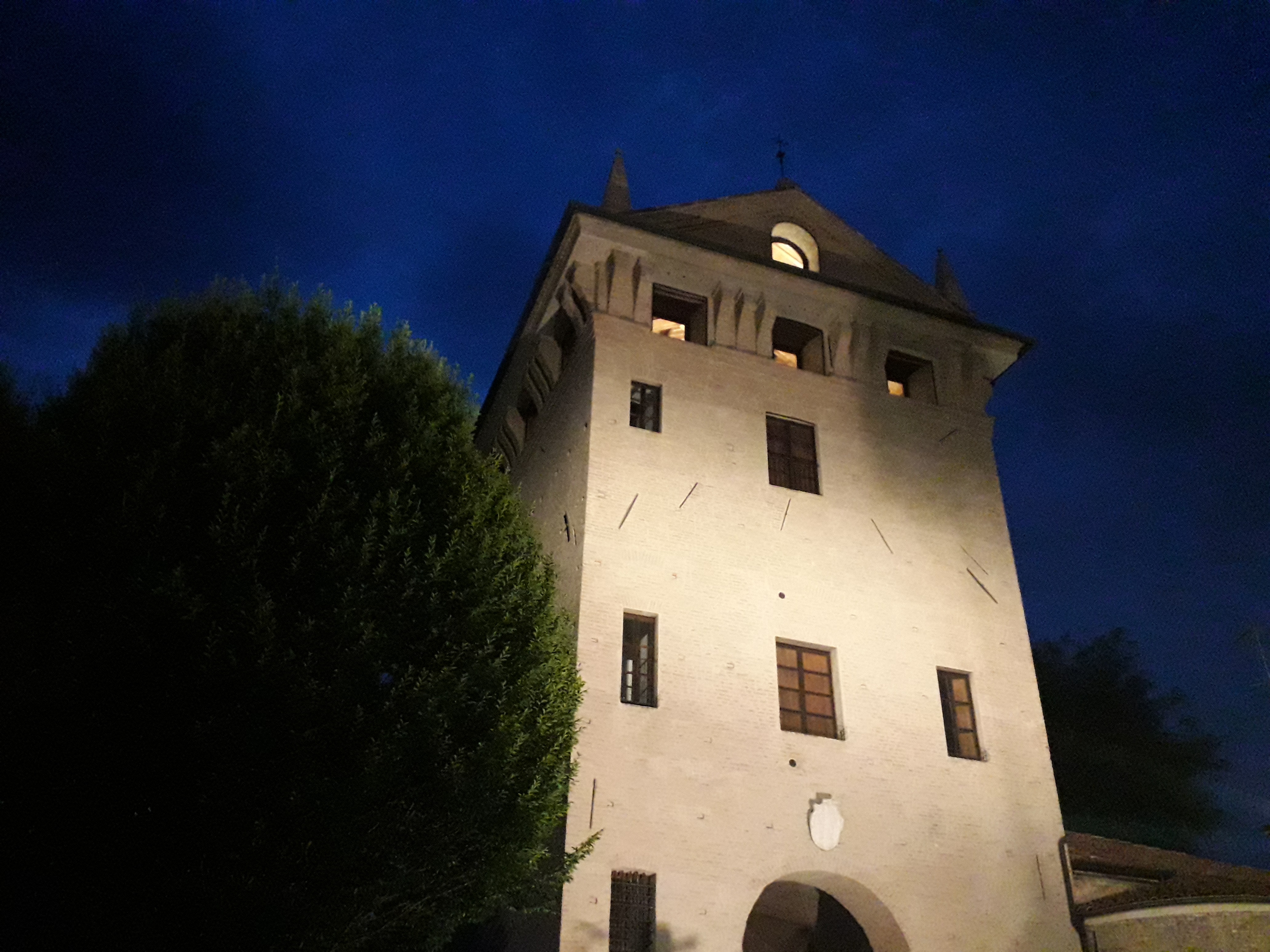 the photo shows the main tower of the former castle of Gonzaga (Mantua) at night